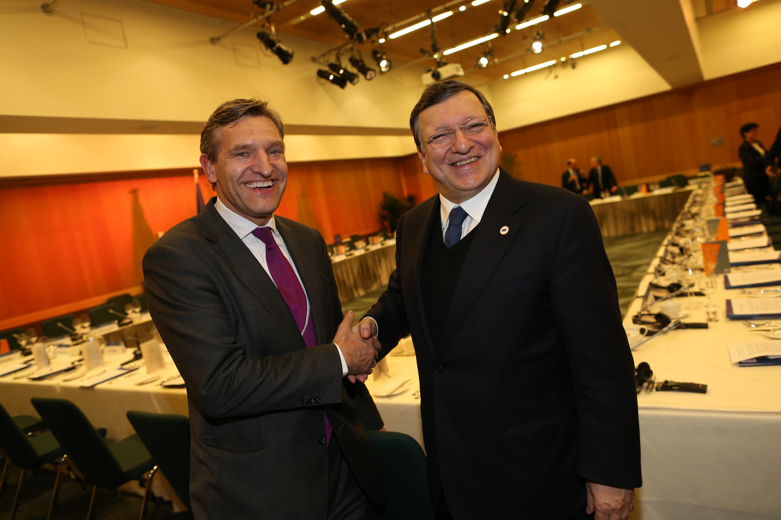 EPP Dublin Congress, 2014